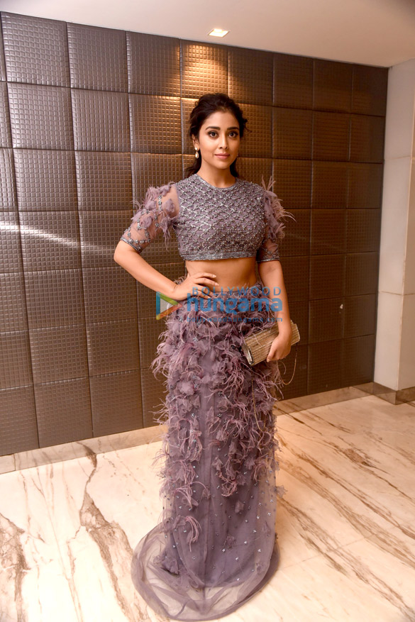 Shriya Saran at Bombay Times Fashion Week